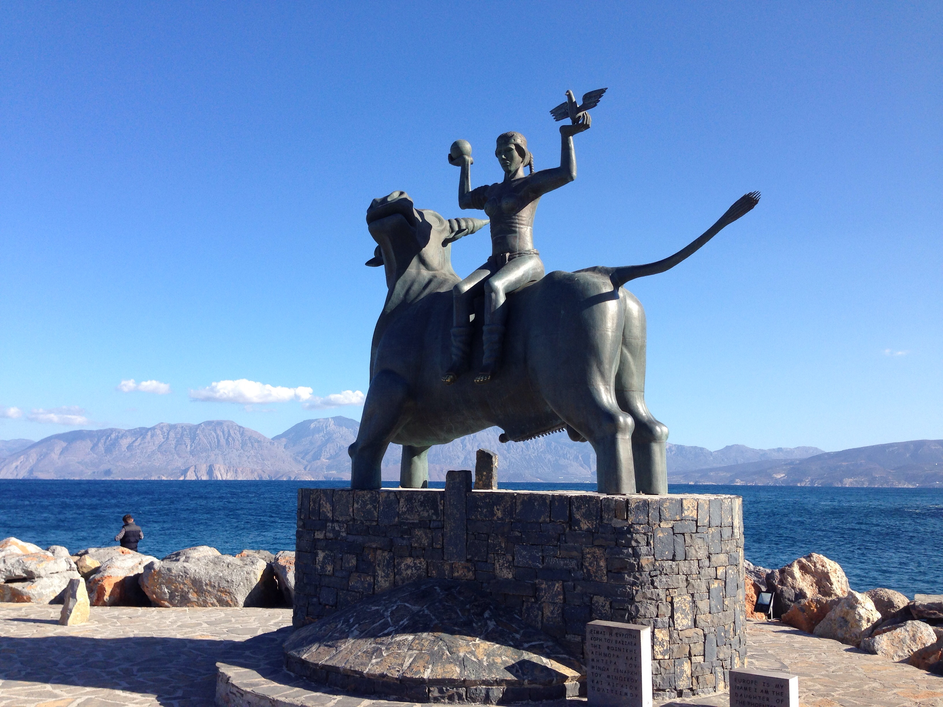 Abduction of Europe. Monument in Agios Nikolaos harbour